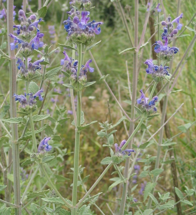 Nepeta curviflora - image taken on 1 May 2004, on the slopes of Mount Carmel, Israel.